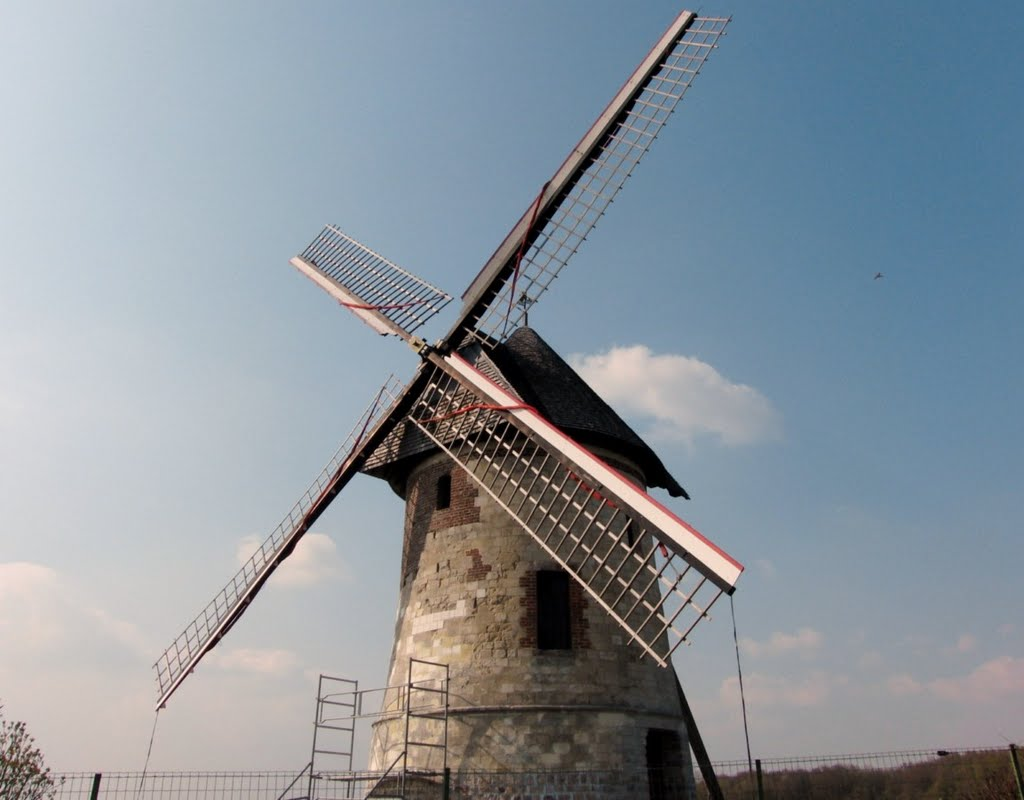 Moulin Brunet Walincourt-SelvignyNord.- France